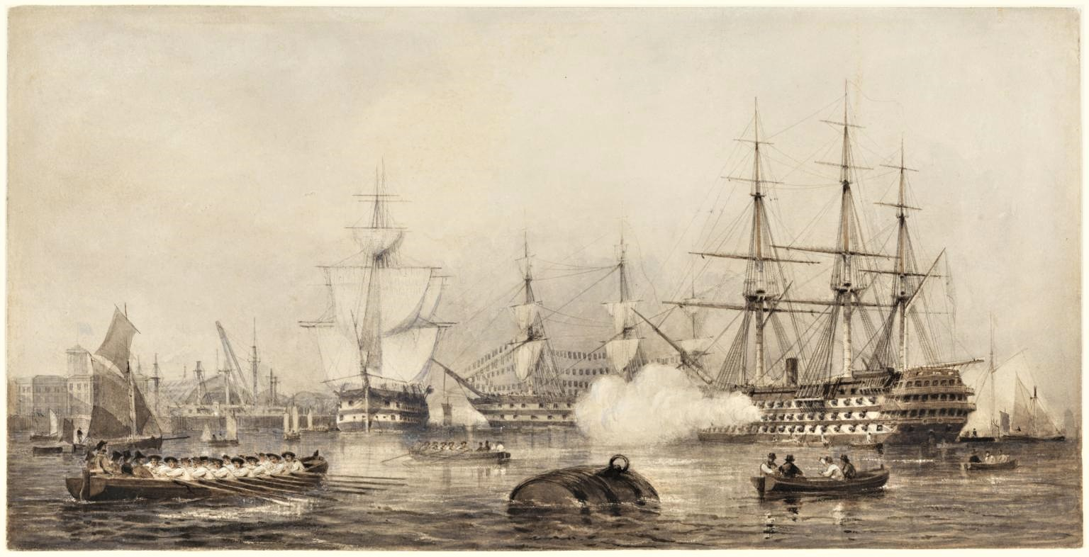 Louis Philippe, King of the French, Arriving at Portsmouth 1844 William Joy and John Cantiloe Joy 1803-1867, 1806-1866 Presented by Gerald Bauer 2007